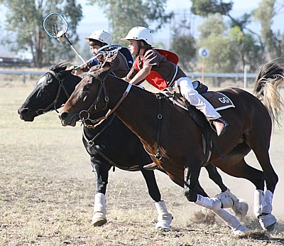 Juniors playing polocrosse in NSW, Australia. Clark and Joe, Melbourne